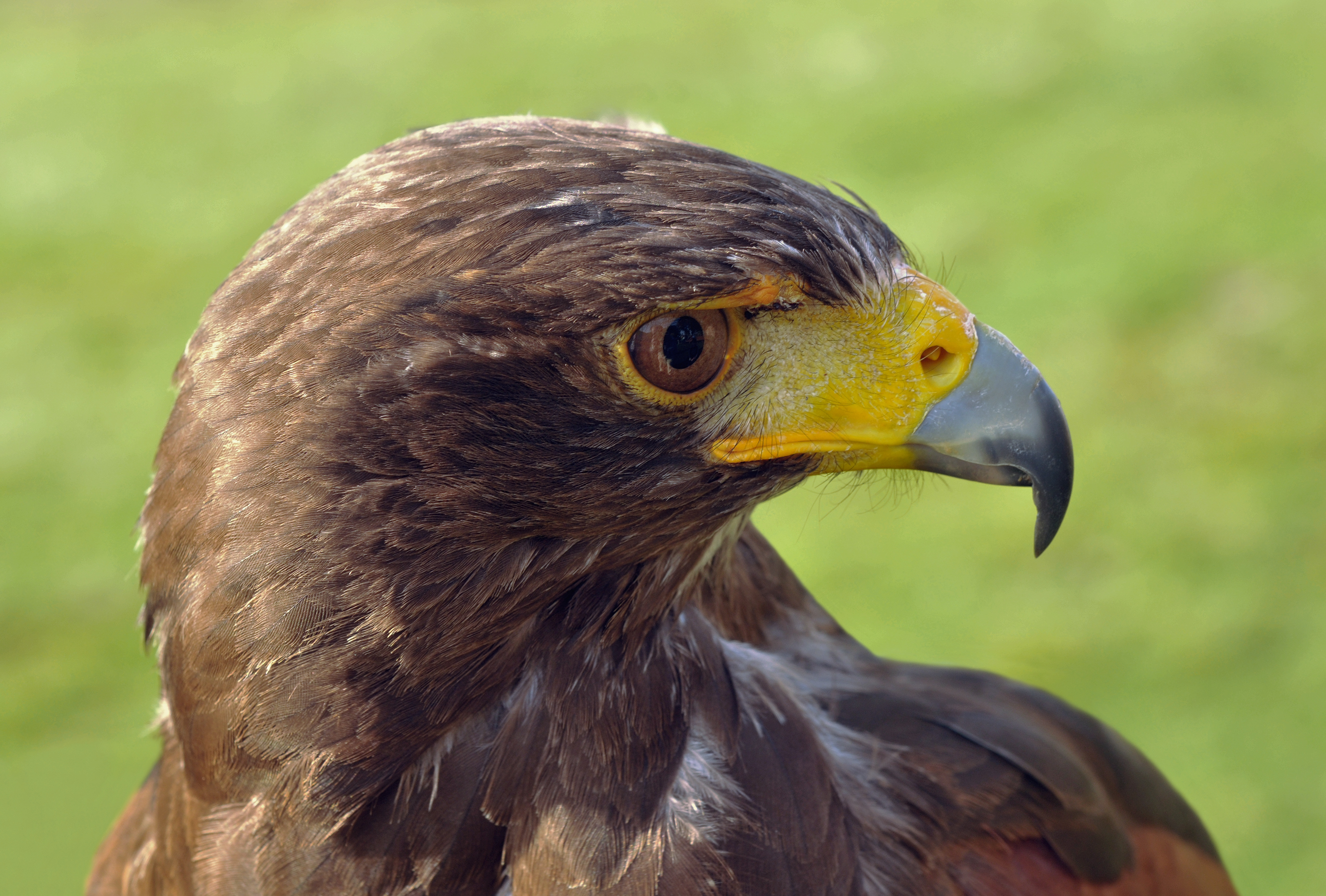 Harris's Hawk in the Neuhaus game park near Holzminden, district Holzminden, Lower Saxony, Germany.